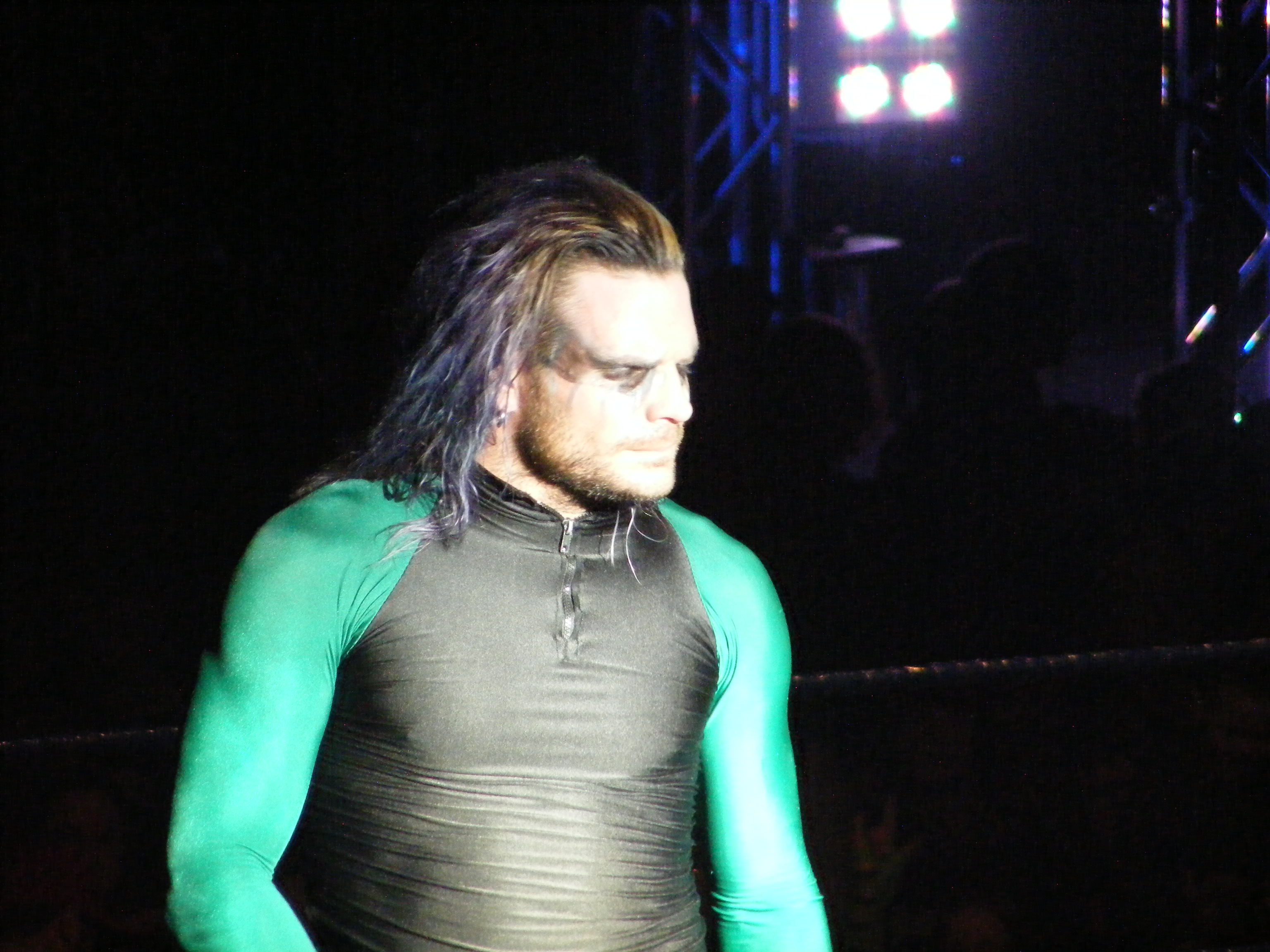 Professional wrestler Jeff Hardy at a WWE show in Burlington, Vermont on February 28, 2009